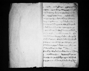 Page of the Tibet vernacular paper (chinois : 西藏白话报/西藏白話報)